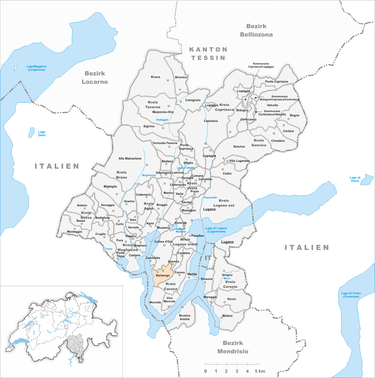 Municipality Barbengo